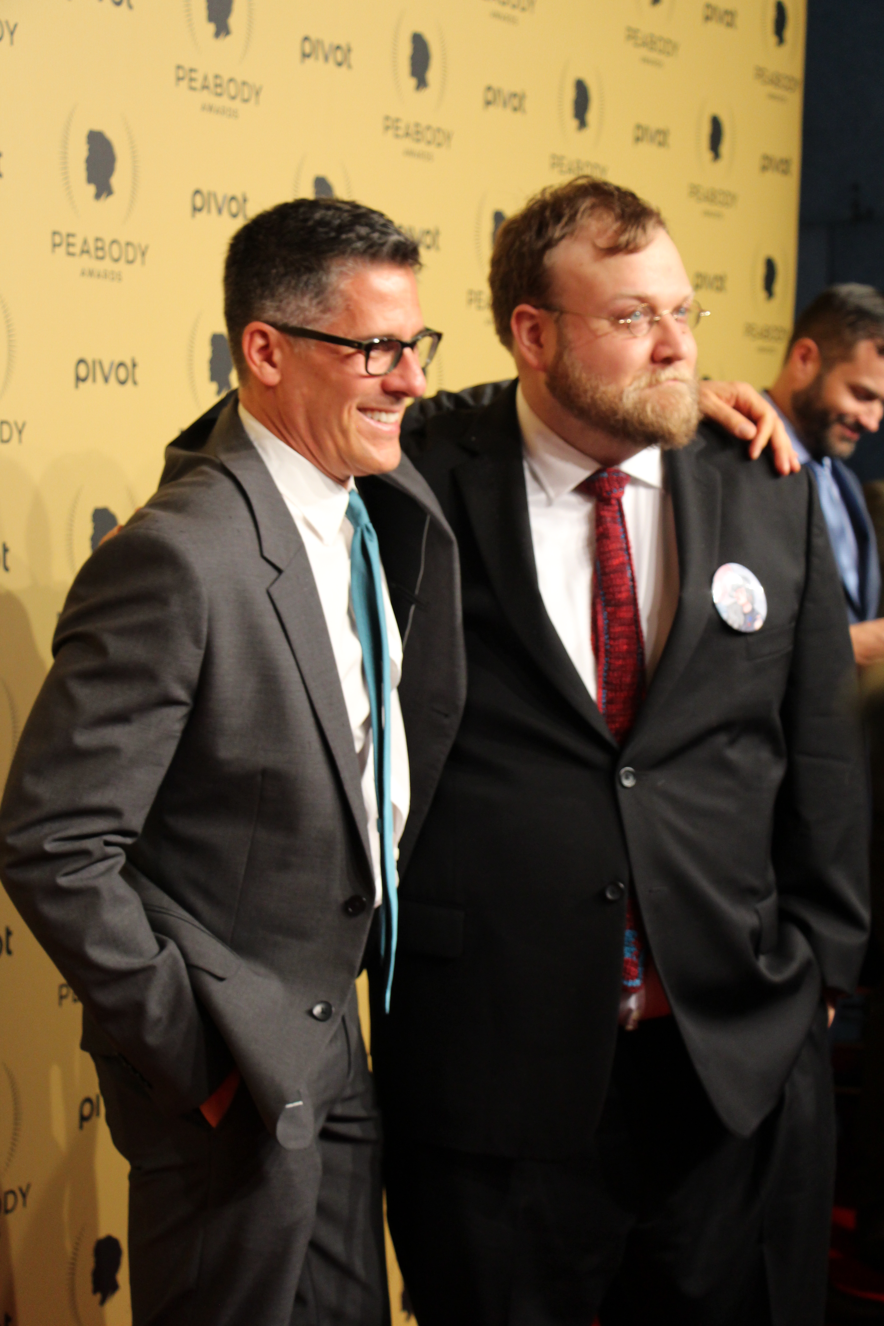 Rob Sorcher, Chief Content Officer of Cartoon Network Studios and Adventure Time Creator Pendleton Ward arrive on the red carpet.